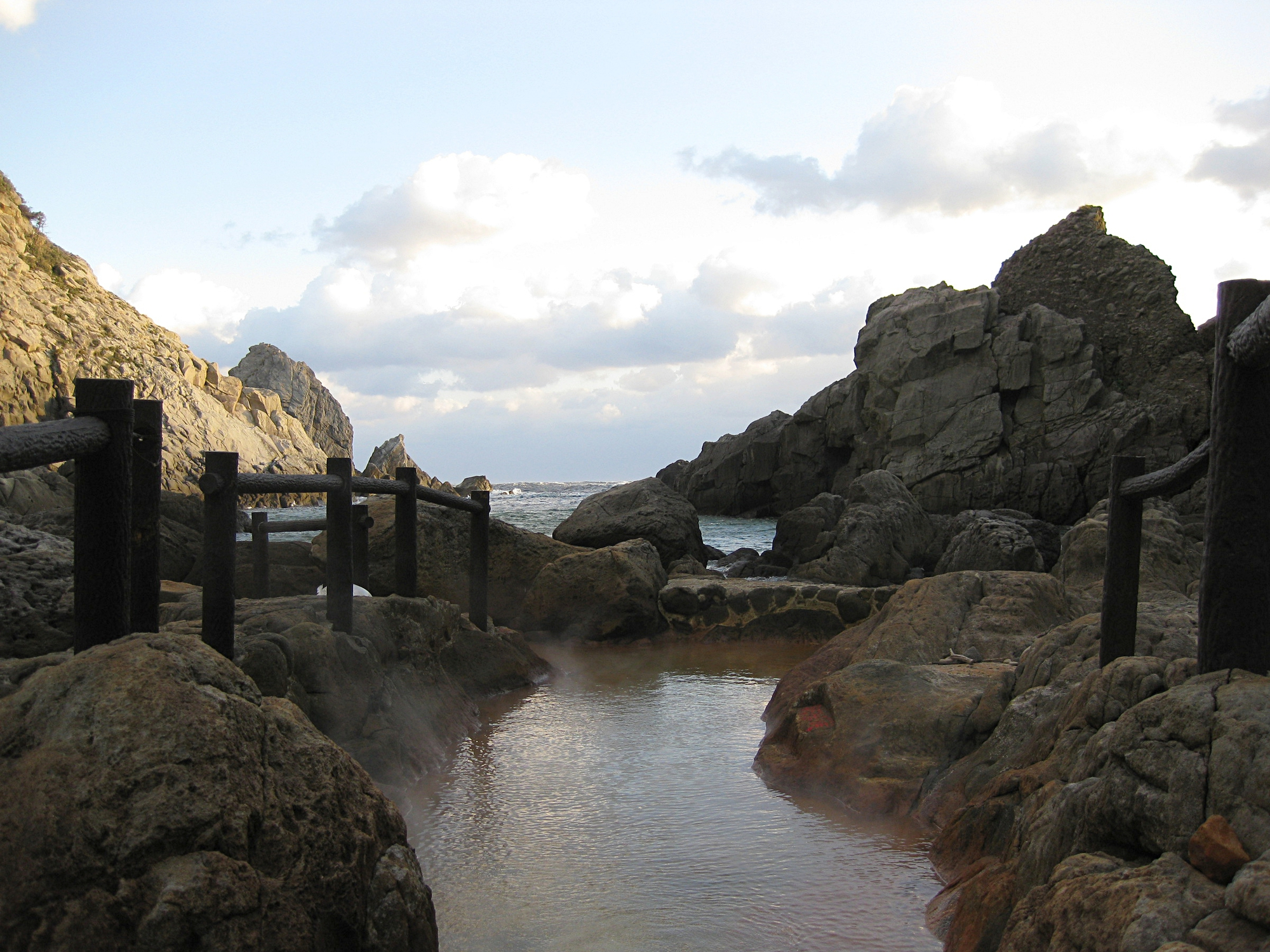 Jinata Onsen, Shikinejima.